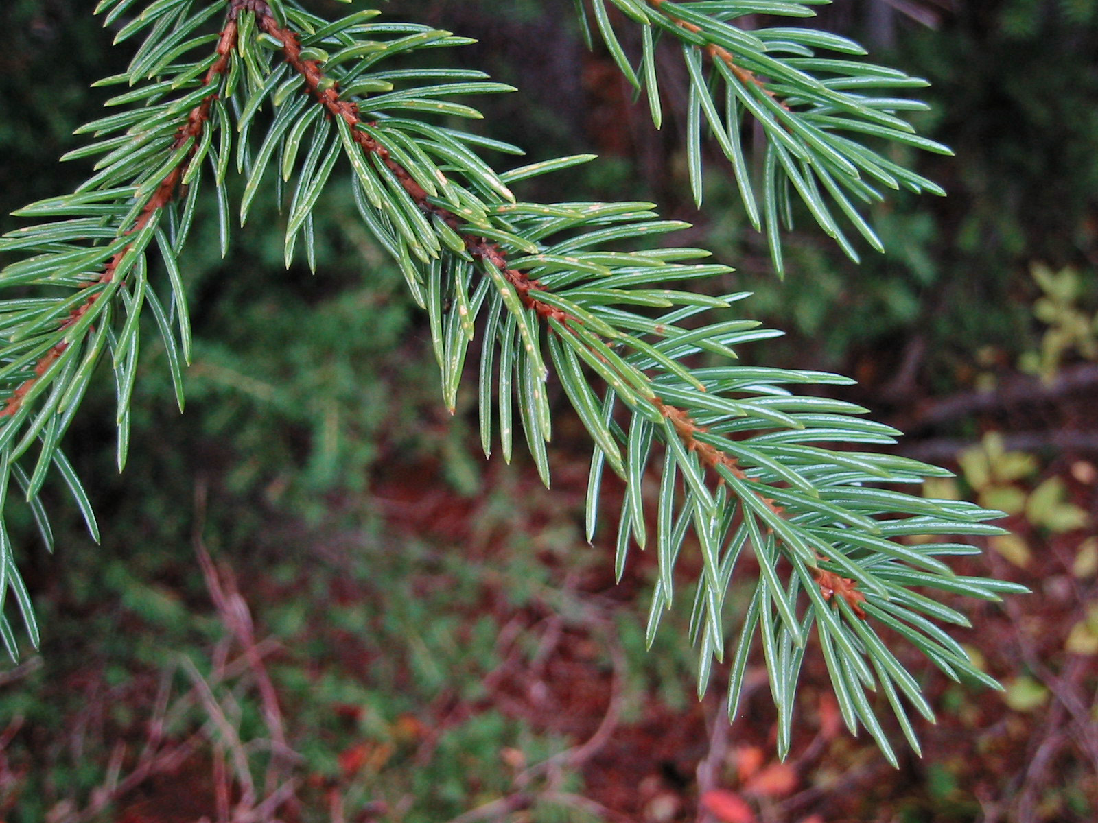 Engelmann Spruce foliage